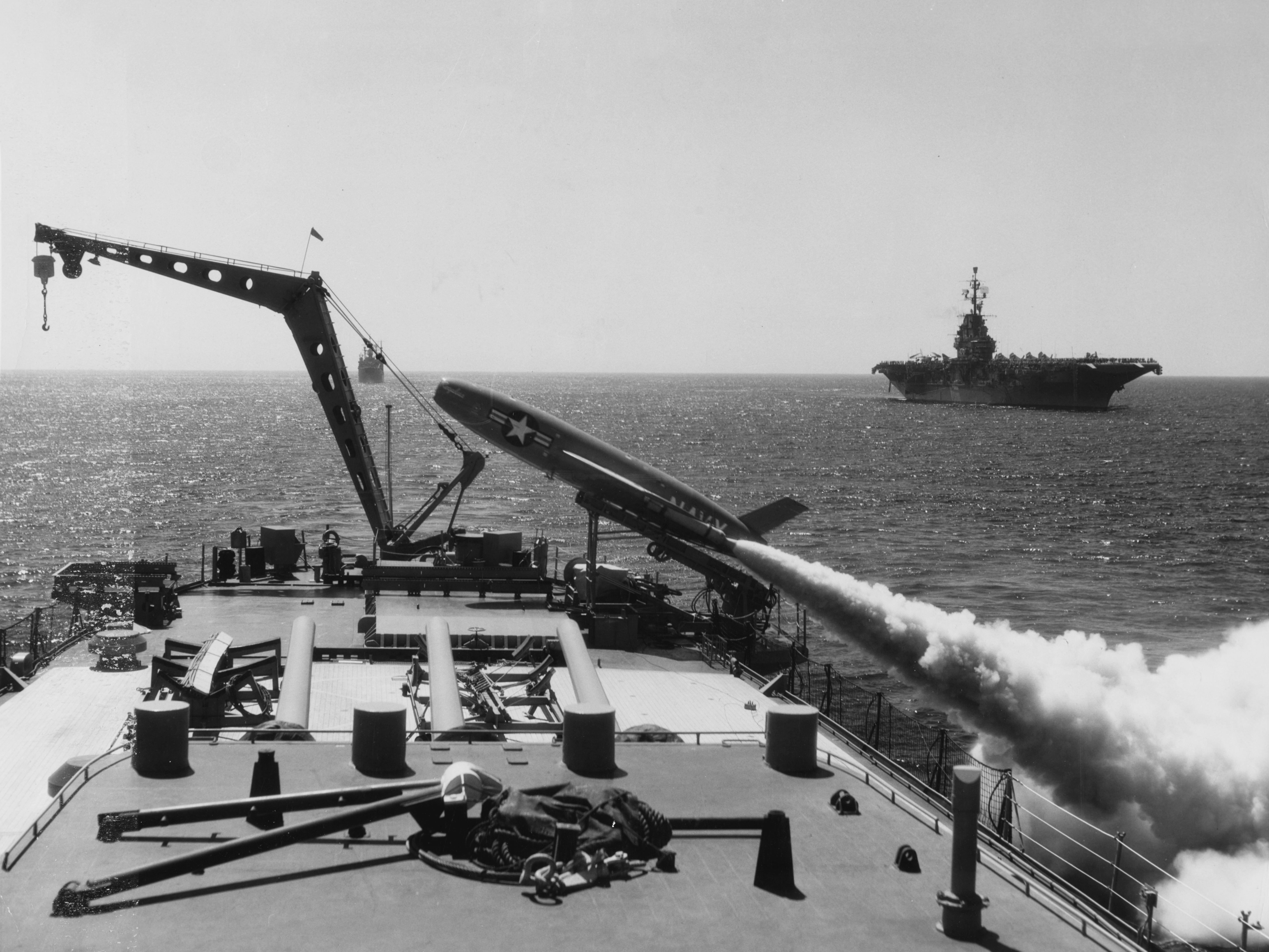 The U.S. Navy heavy cruiser USS Los Angeles (CA-135) firing a SSM-N-8 Regulus I missile, on 7 August 1957. The aircraft carrier USS Ticonderoga (CVA-14) is visible in the right background, the missile test ship USS Norton Sound (AVM-1) is visible behind the crane. Original caption: "West Coast Cruisers Capable of Nuclear Assault -- A Regulus I boils white smoke from booster charges as it roars away from its launcher aboard the heavy cruiser USS Los Angeles off San Diego. The launch, a routine evaluation 'shoot', was conducted during the time that 600 members of the Institute of Aeronautical Science were embarked aboard the attack carrier USS Ticonderoga (CVA-14), right. The demonstration, which included a 'Terrier' guided missile interception of the Regulus, power exhibition, carrier operations, and a HUK exercise, was highlighted by the Regulus launching. The Terrier was fired at the Regulus from the USS Norton Sound (AVM-1), background, on August 7." (Text quoted from the original photo caption, which was released by Commander, Cruiser-Destroyer Force, U.S. Pacific Fleet, on 9 August 1957.)